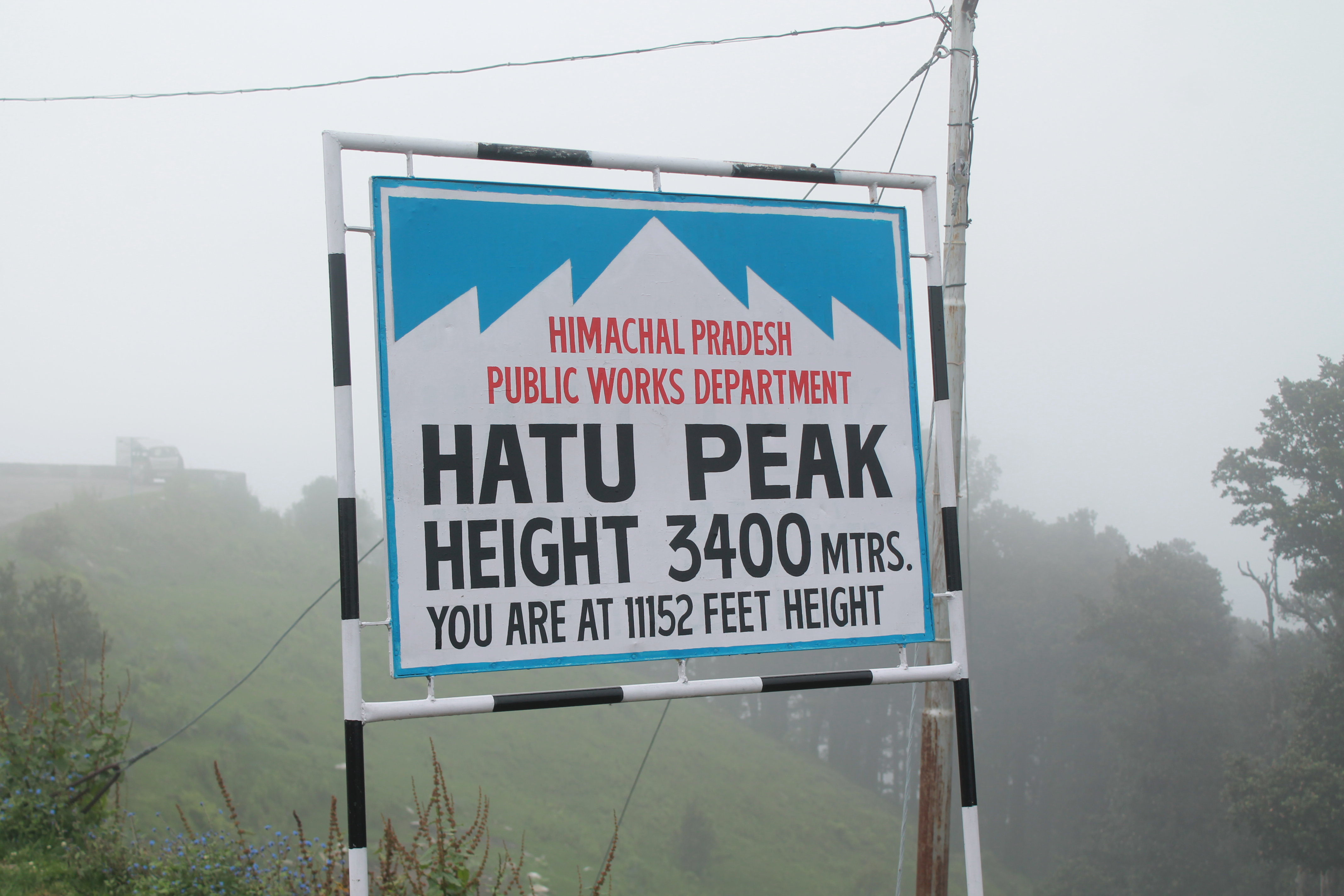 Location Board of Hatu Peak depicting altitude placed by Public Works Department, Himachal Pradesh